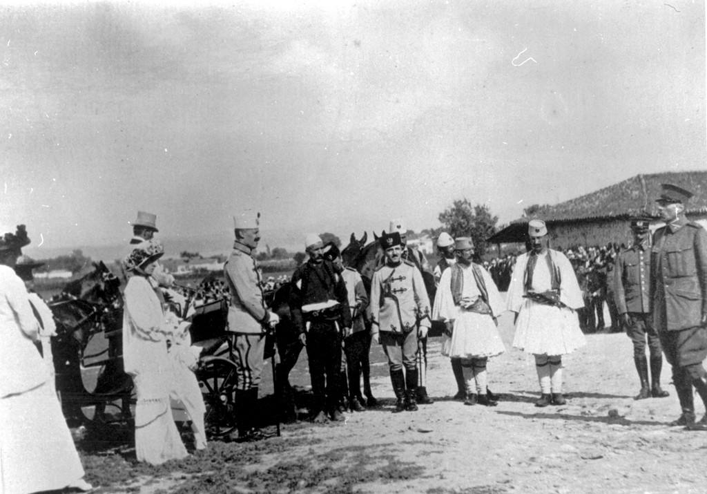 Prince William of Wied, Isa Boletini, Duncan Heaton-Armstrong, major Lucas Roelfsema, major Johan Sluys (right) in Durrës, Albania.